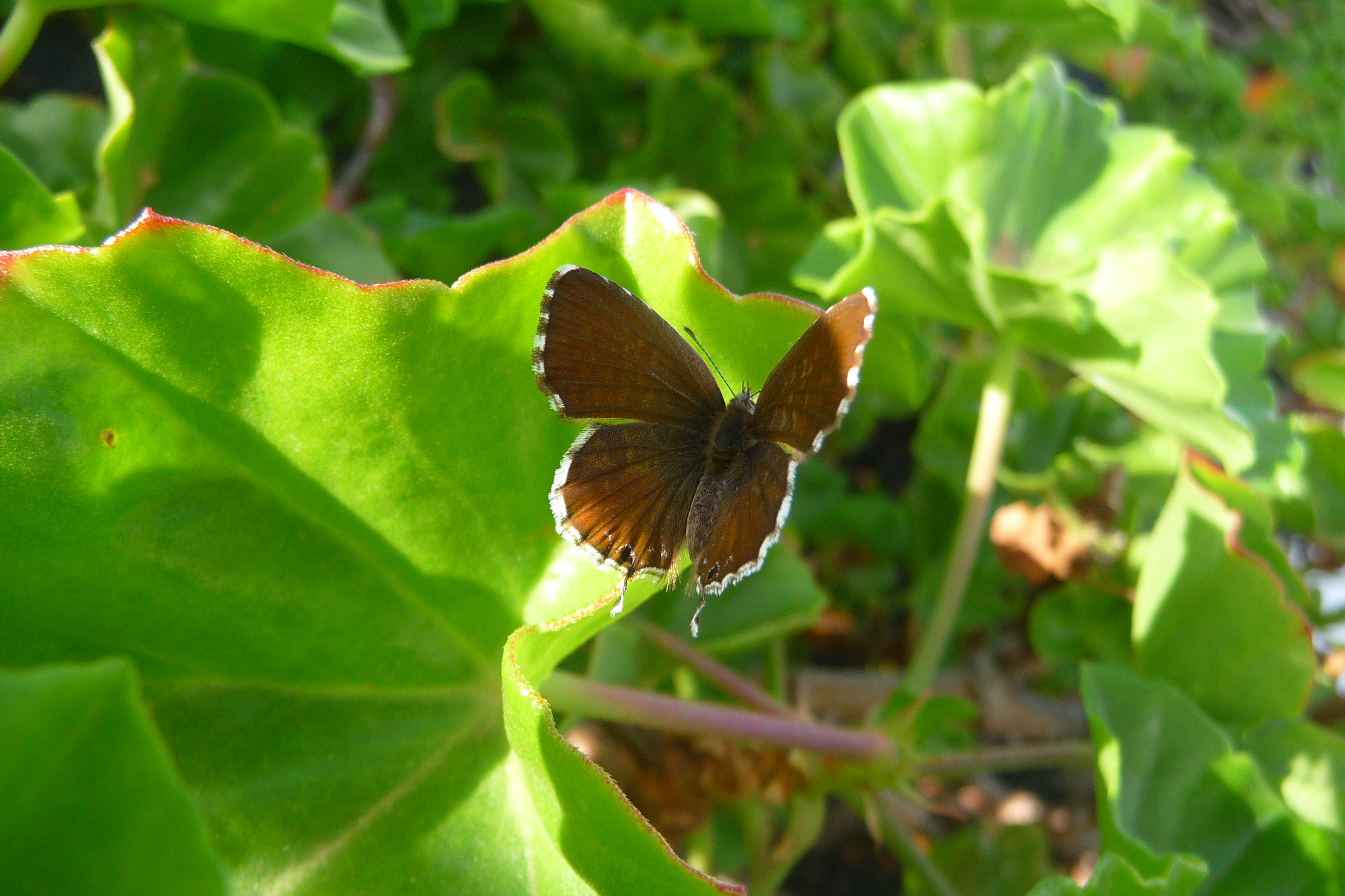 Cacyreus marshalli